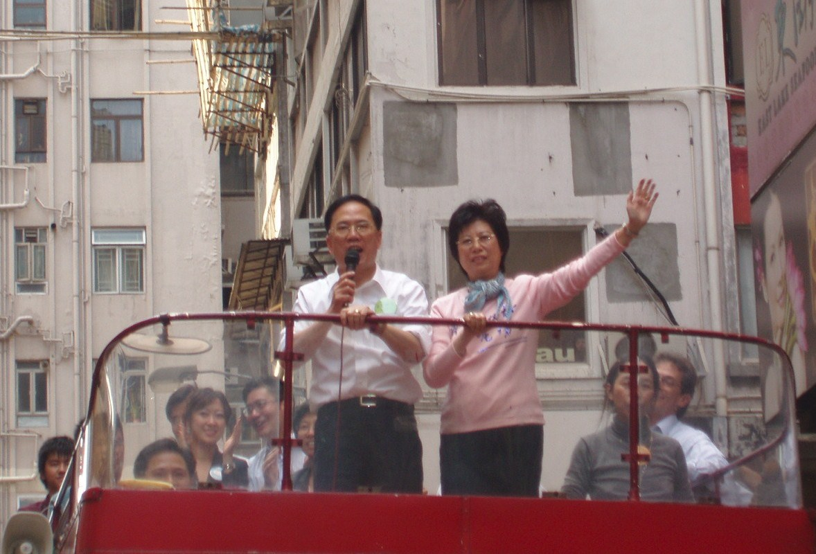 Donald Tsang and his wife thanks for supports on a bus on Paterson Street, Causeway Bay, Hong Kong